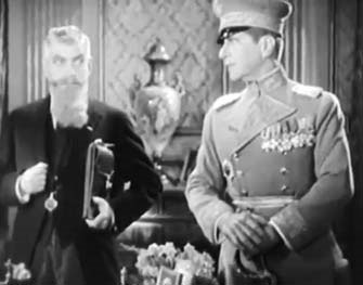 Alan Roscoe and Robert Warwick in the 1931 American film The Royal Bed.